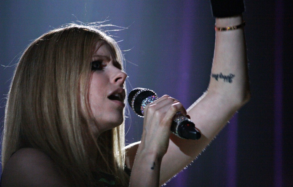 Avril Lavigne - Italian Tour 2011